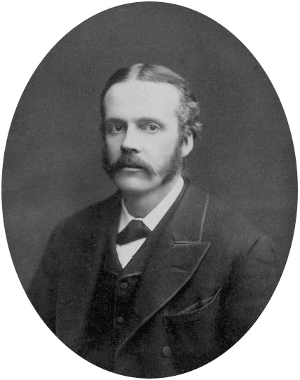 Arthur James Balfour early in his career